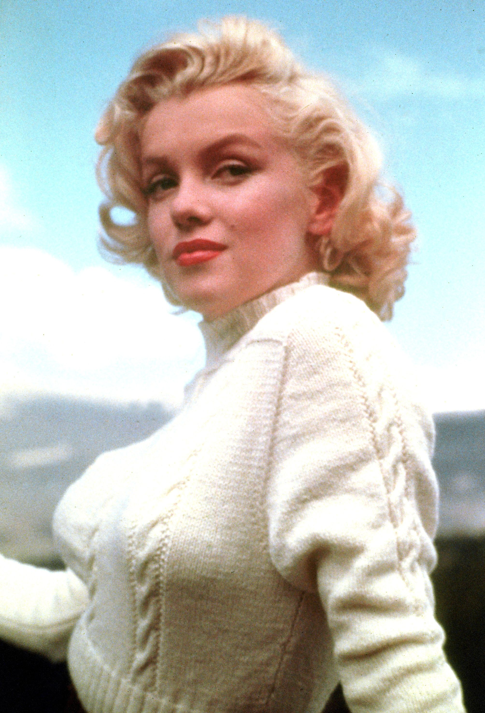 Photo of Marilyn Monroe from the November 1953 issue of Modern Screen. Note this is a smaller, better quality copy of the photo seen on Modern Screen. A renewal search was done at using the title Modern Screen. There were no listings for the publication; there's no evidence of continued copyright on the magazine. A search revealed that this was taken for 1954 film River of No Return.